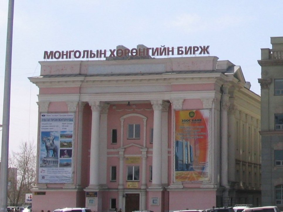 The Mongolian stock exchange (left, 1950s) and the Bodhi Tower (right, 2004) overlooking the central Sükhbaatar square in Ulaanbaatar, Mongolia.